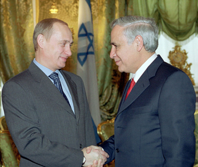 THE KREMLIN, MOSCOW. President Putin with Israeli President Moshe Katsav.